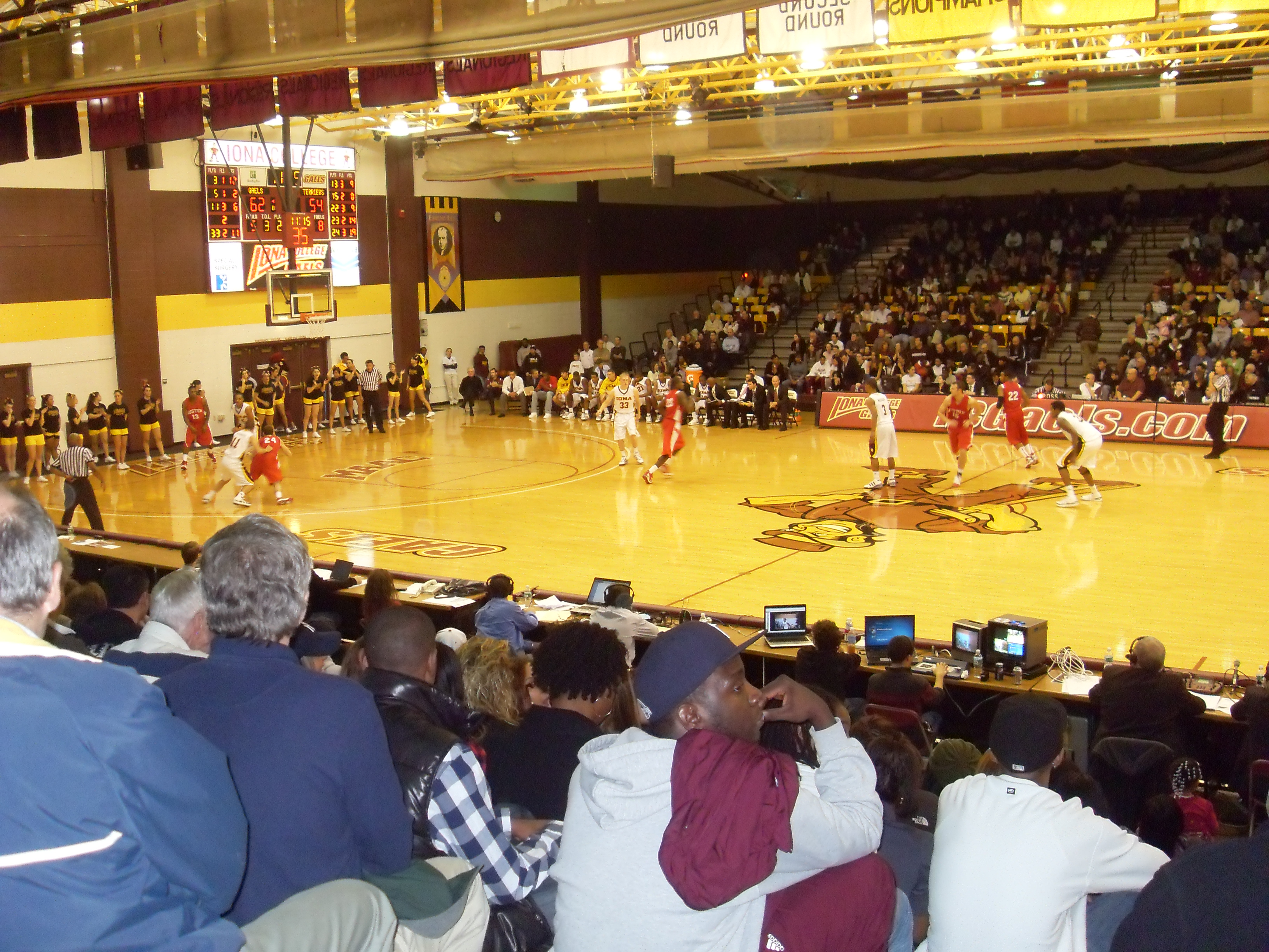 Iona Gaels Basketball at the Hynes Athletic Center